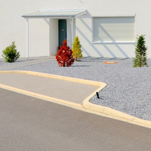 Sven Kierst, Suburban Late Summer, 2014, art photography, 80 cm x 80 cm